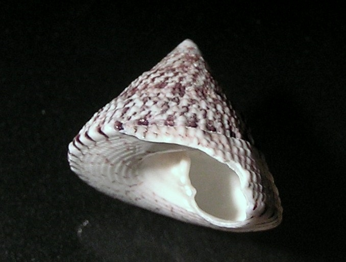 Infundibulum tomlini (Fulton, 1930) (synonym: Trochus tomlini Fulton, 1930), a topsnail from the family Trochidae; South China Sea